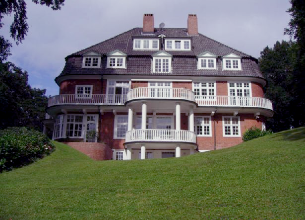 Former Nautical School Hamburg-Blankenese, Falkenstein, - Photographed 2007 by Hummel Hummel.